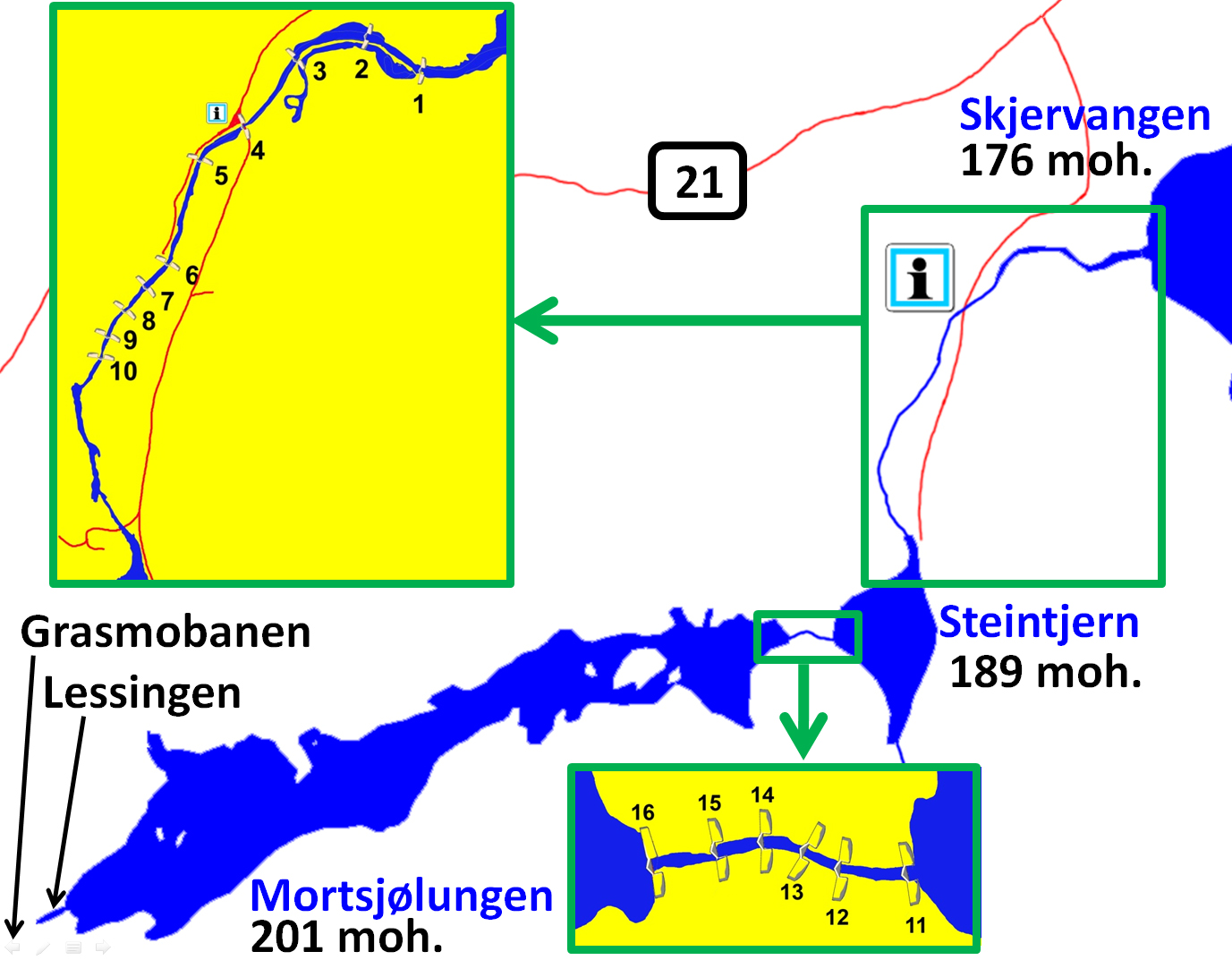 Lock system in the Soot canal Norway